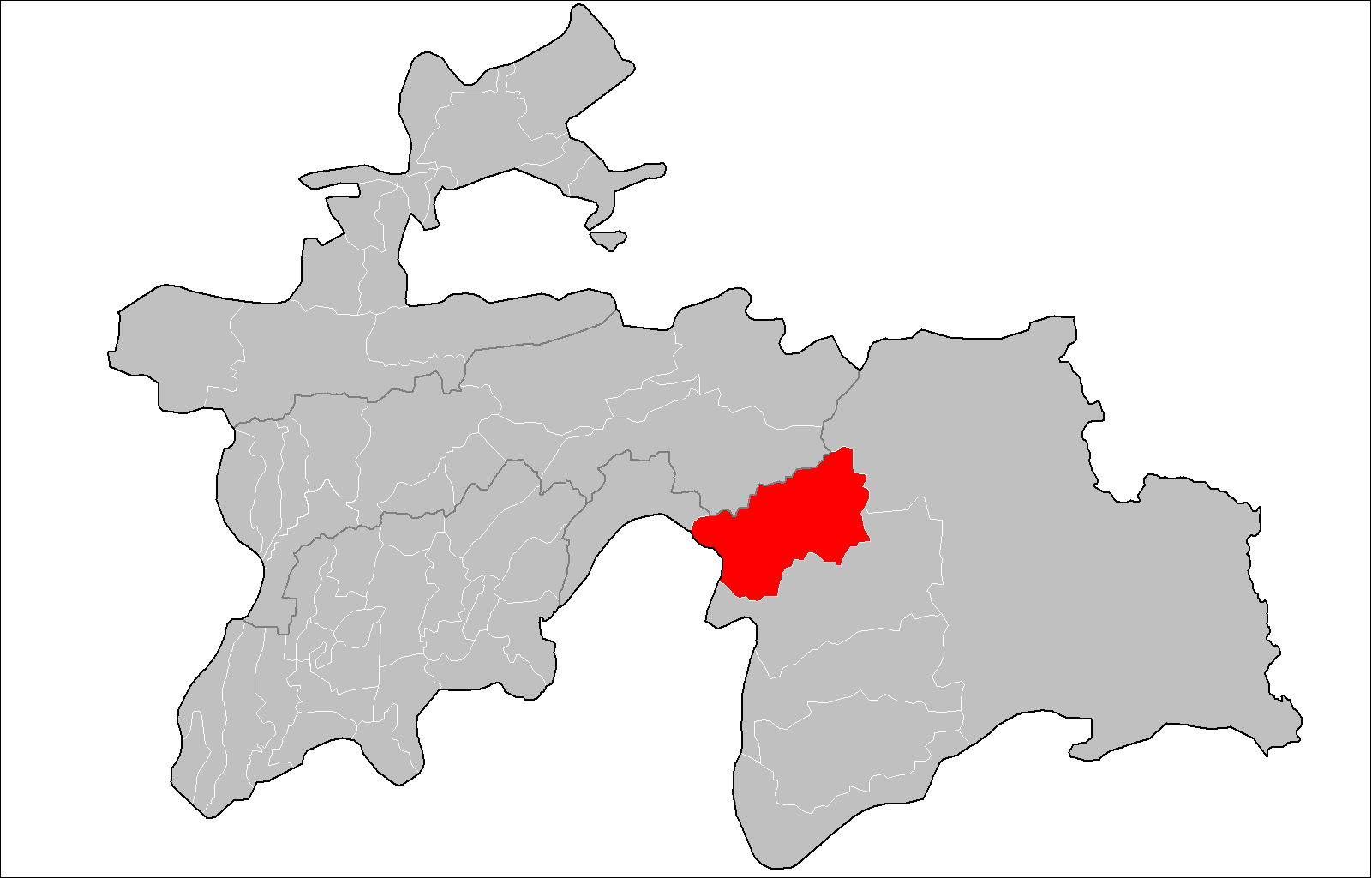 Location of Vanj District in Tajikistan